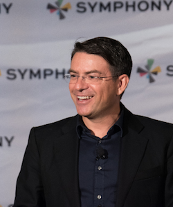 David Gurle at Symphony Innovate 2016 at the Dream Hotel